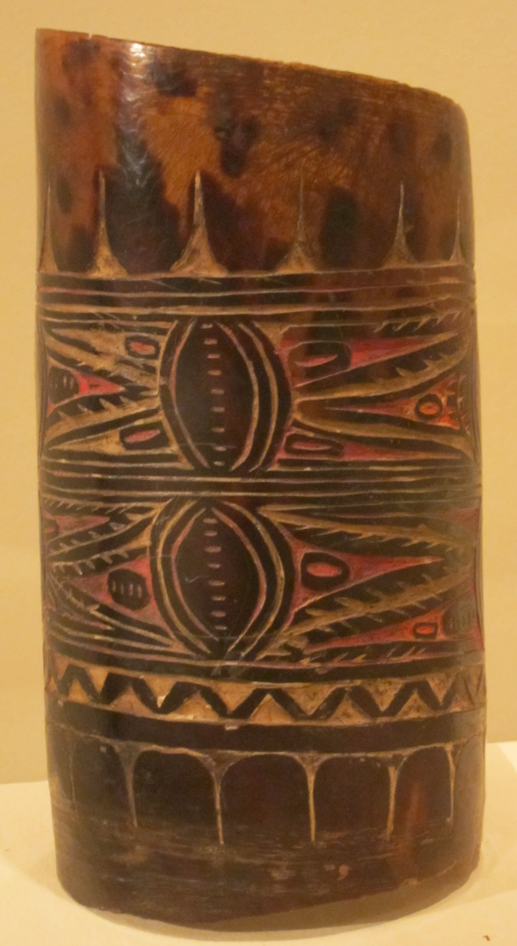 Armband, Papua New Guinea, hawksbill sea turtle shell, sennit and natural pigments, Honolulu Academy of Arts